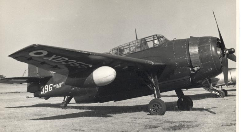 Royal Navy Grumman AS.4 Avenger XB355 of 744 Squadron at Blackbushe